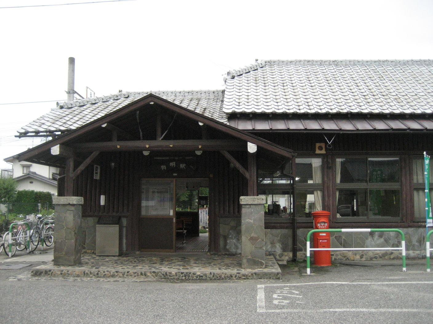 JR East Ariake Station